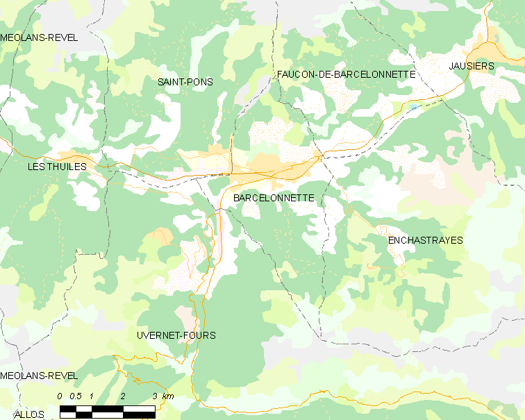 Map commune FR insee code 04019.png Légende